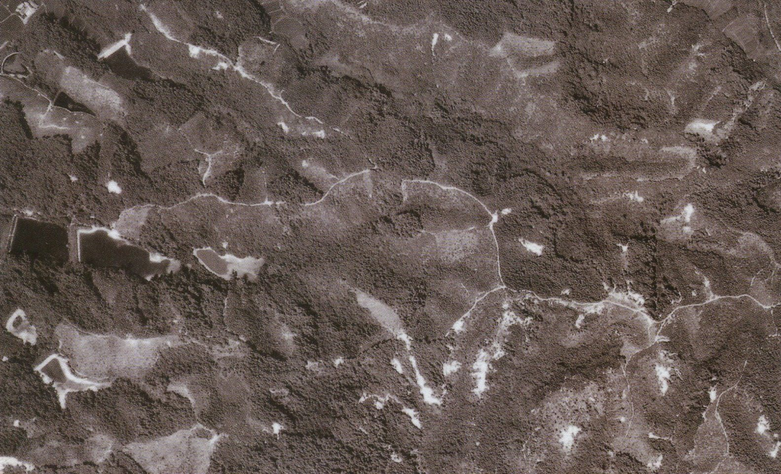 Shijimitown Aoyama Mikicity Hyogopref in 1961